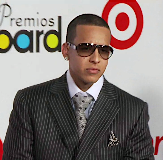 Daddy Yankee at 2009 Billboard Latin Music Awards Red Carpet | Screenshoot starting at 6:09 sec.